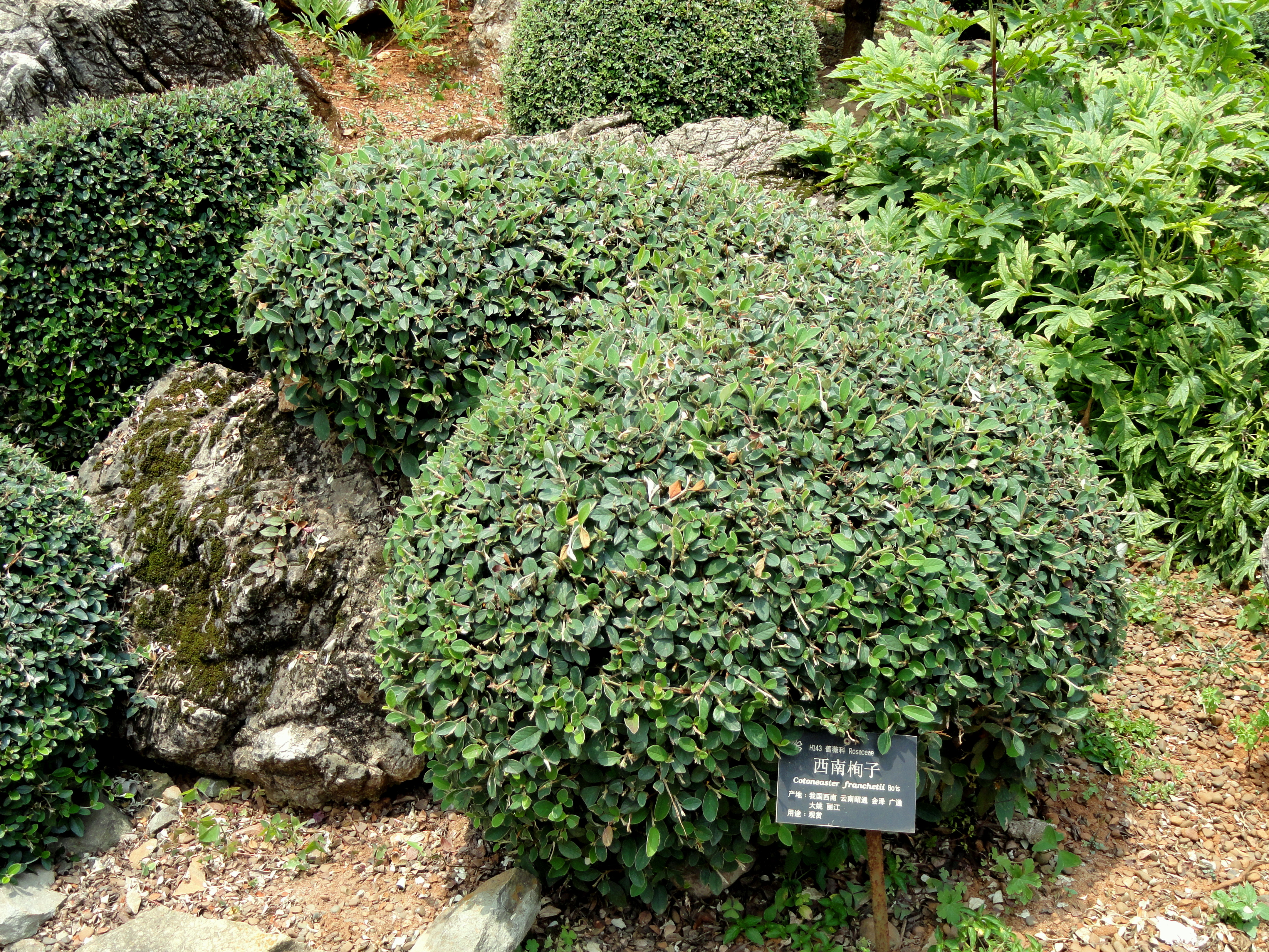 Plant specimen in the Kunming Botanical Garden, Kunming, Yunnan, China.